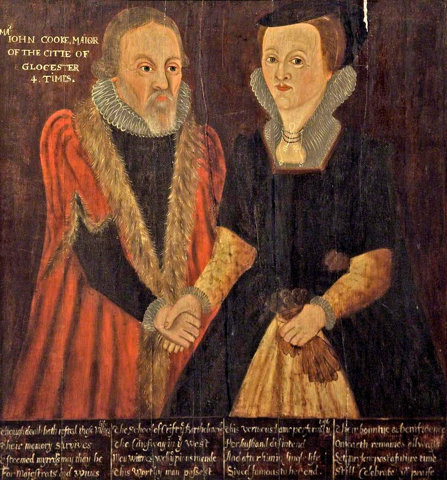 John Cooke (d.1528), and Joan Cooke (d.1545) by unknown artist Oil on wood panel, 81.2 x 75.6 cm Collection: Gloucester Museums Service Art Collection Joan Cooke leading John Cooke who wears his fur fitted or fur trimmed (sable or marten) mayoral robe. He has one hand on her waist, and the other in hers. She is holding a pair of gloves, these may be his Freeman's gloves, if so then this is a highly unusual statement of her status. The pattern lines of the under drawing can be seen in parts of the faces. Age has made the glazes more transparent, giving more prominence to some features, making the painting more naive than it would have looked originally. There may be more ochres in this and the other paintings than in other known pictures because ochre was mined in the Forest of Dean, however the paint would have to be tested to confirm this. The panel appears to have been cut down as the edges appear new. Oil on English oak panel, heavily braced to rear.